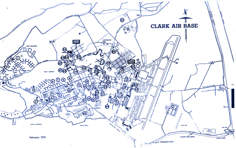 Clark Air Base, Philippines, 1975. (US Air Force)